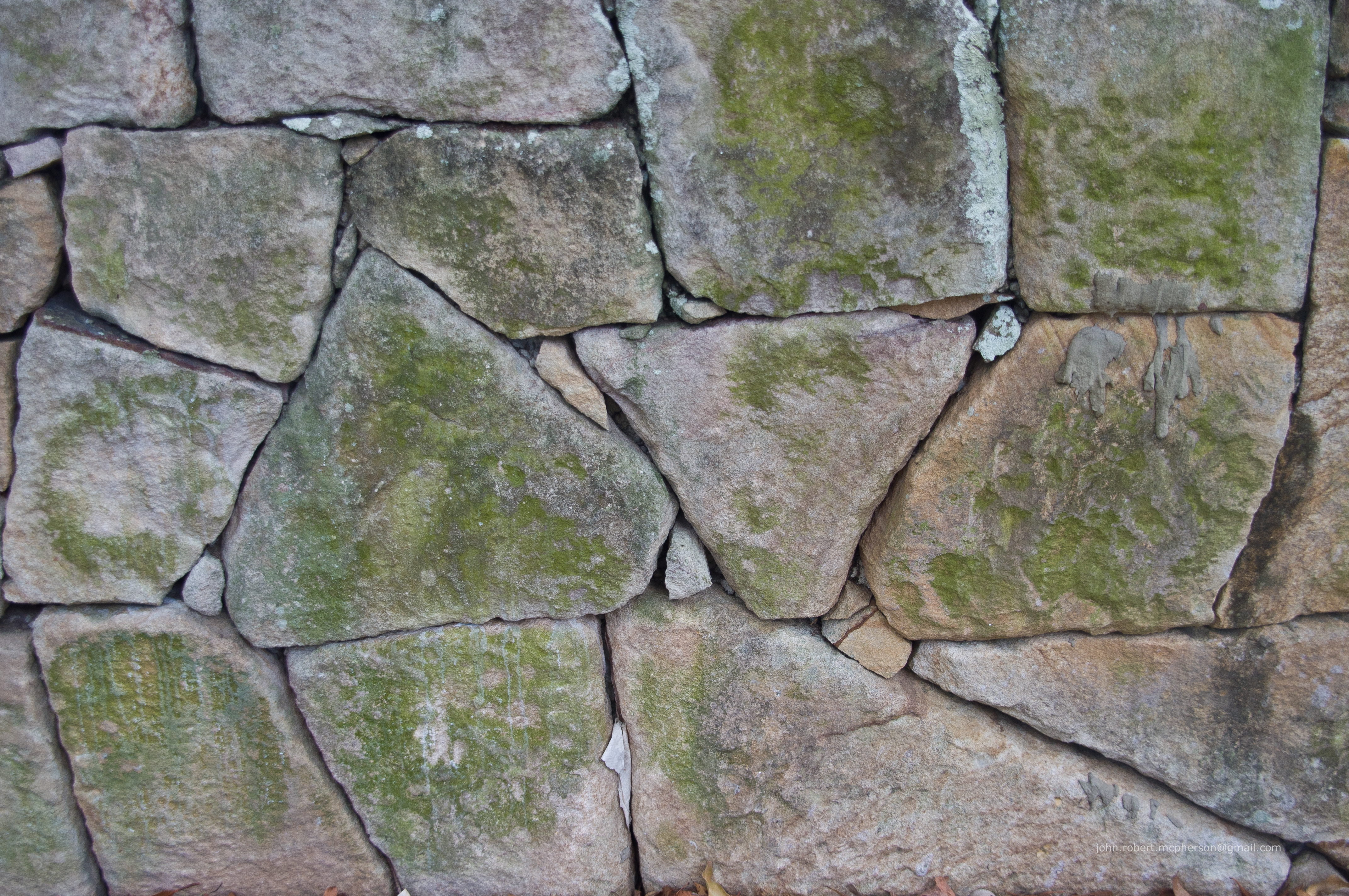 Algae and lichen grow on the south facing, porphyry stone retaining wall of John Wesley Gardens.